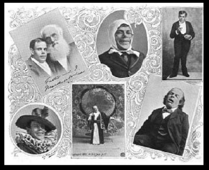 Marshall Pinckney Wilder, American Actor and Humorist